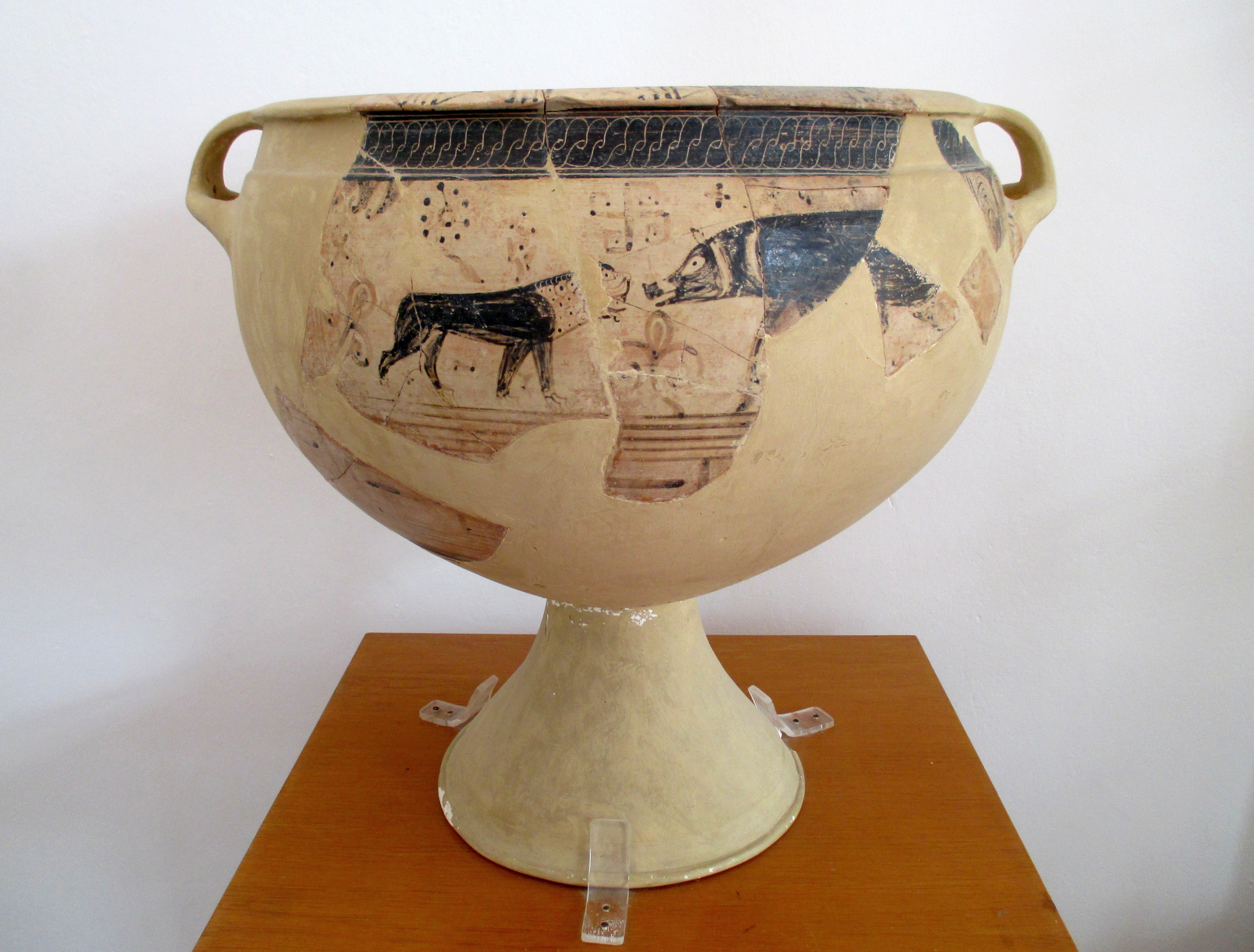 Samian crater, 7th century BC. Archaeological Museum of Samos, Greece.